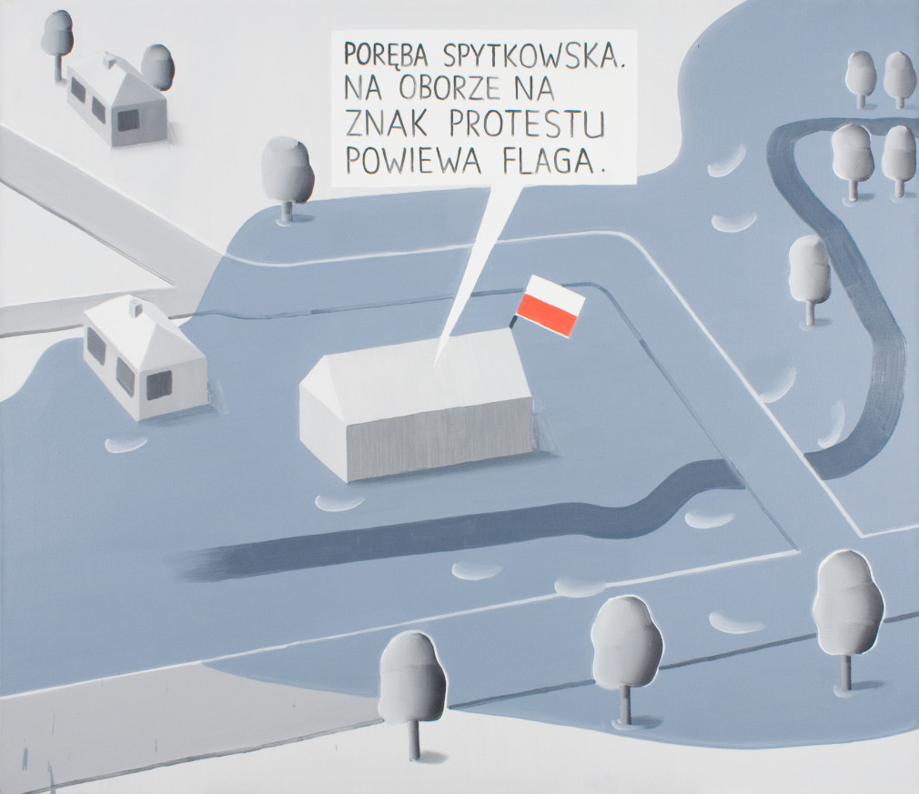 "Poręba Spytkowska" - work by Marcin Maciejowski, from permanent collection of Zachęta National Gallery of Art (Warsaw, Poland)